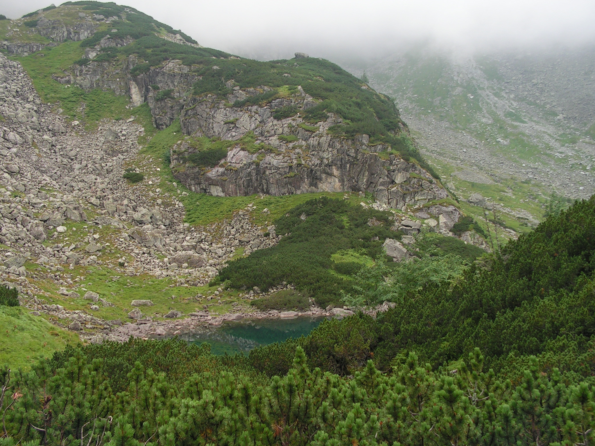 Kačacie pliesko